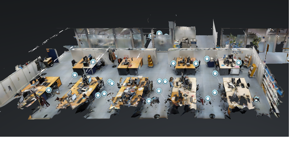 Virtual Reality at UOC Library staff